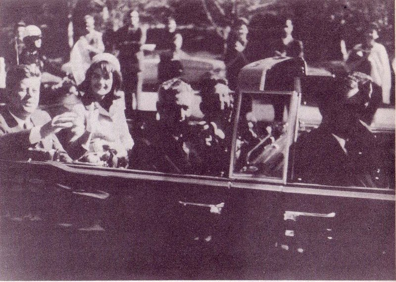 The presidential motorcade shortly before the JFK assassination Warren Commission exhibit #697 Scanned from 1964 Government office printing of the Warren Commission Those in the car are (from left to right): John F. Kennedy, Jacqueline Kennedy, John Connally, and Nellie Connally, Roy Kellerman (front passenger seat) and William Greer (driver). Tomada de es::en:Image:Motorcade.jpg